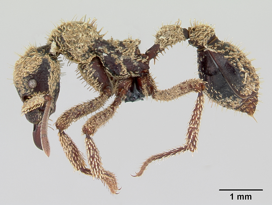 Profile view of ant Basiceros manni specimen casent0052769.